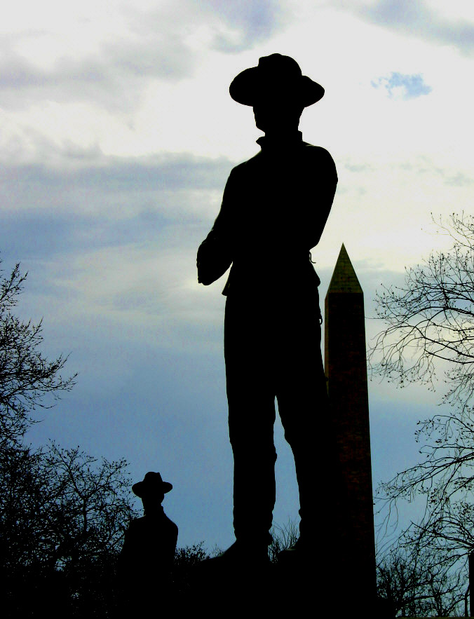 Solider statues on the base of the William T. Sherman Memorial in President's Park, Washington, D.C.